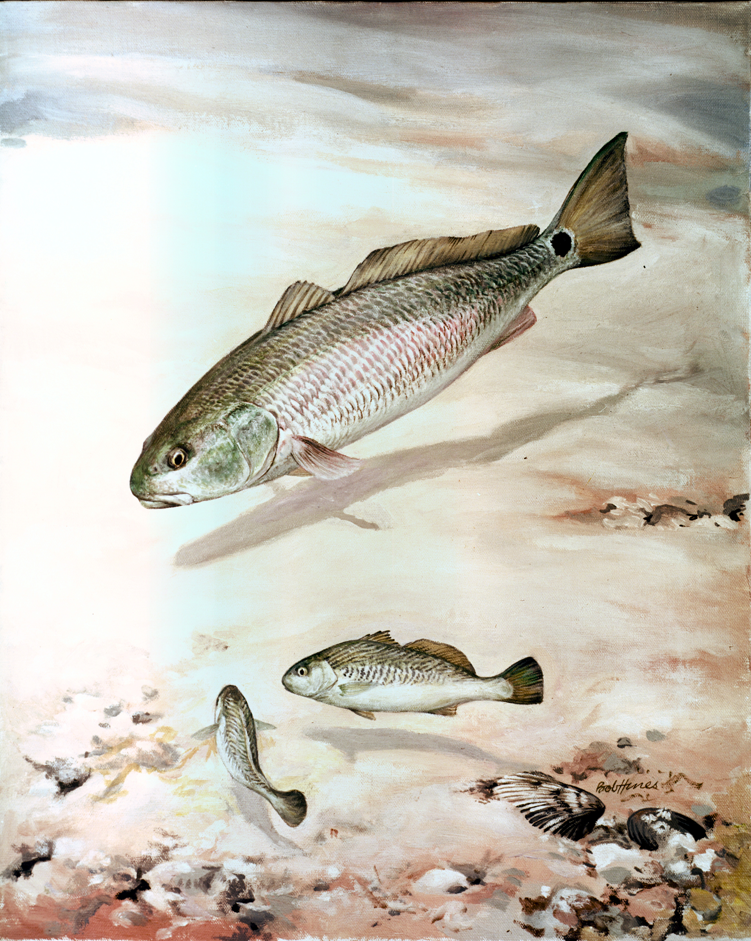 a channel bass (red drum) (Sciaenops ocellatus)